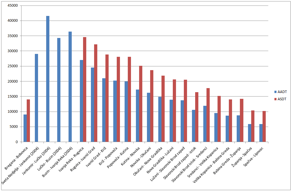 raffic volume measured on the Croatian A3 motorway in 2009 (by section)